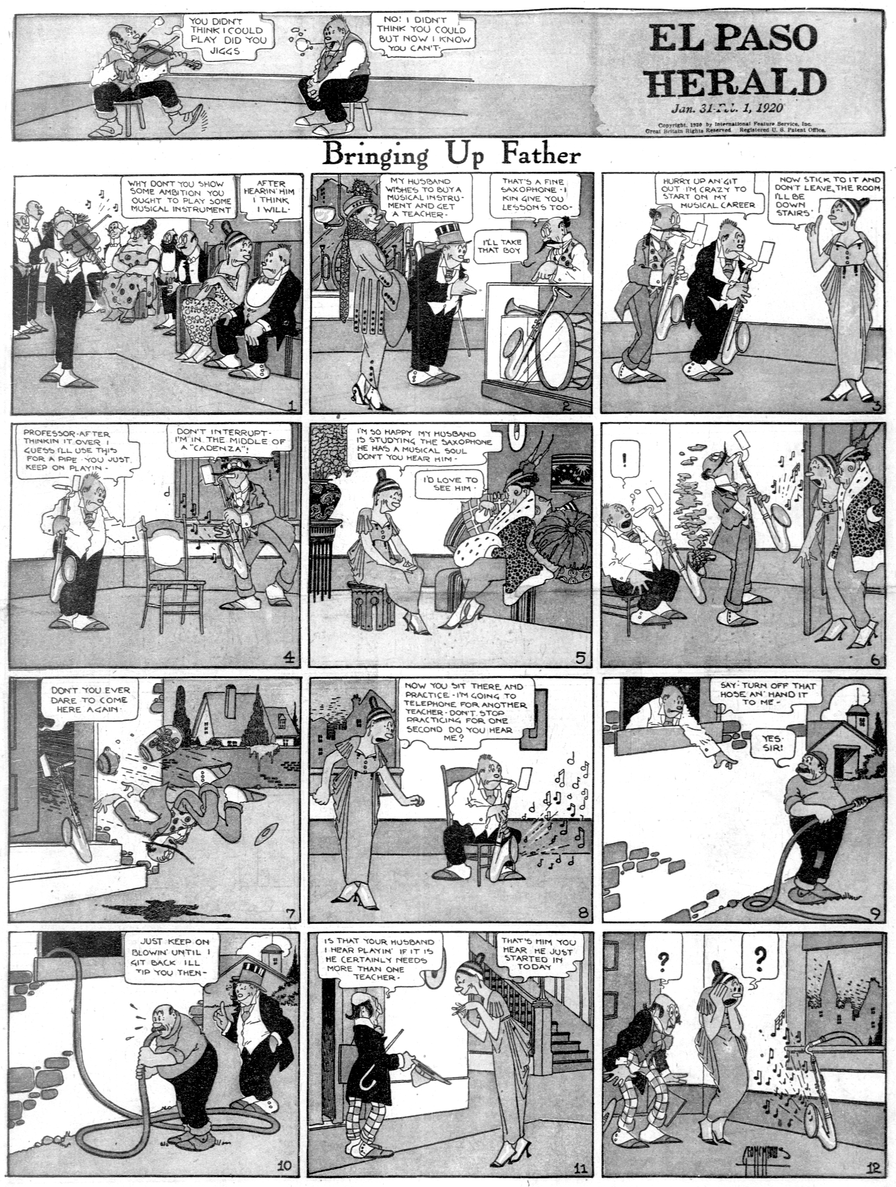 Bringing Up Father was an influential American comic strip created by cartoonist George McManus (1884–1954). Distributed by King Features Syndicate, it ran for 87 years, from January 12, 1913 to May 28, 2000.